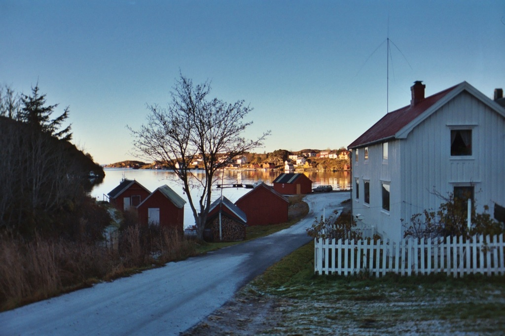 Hitra